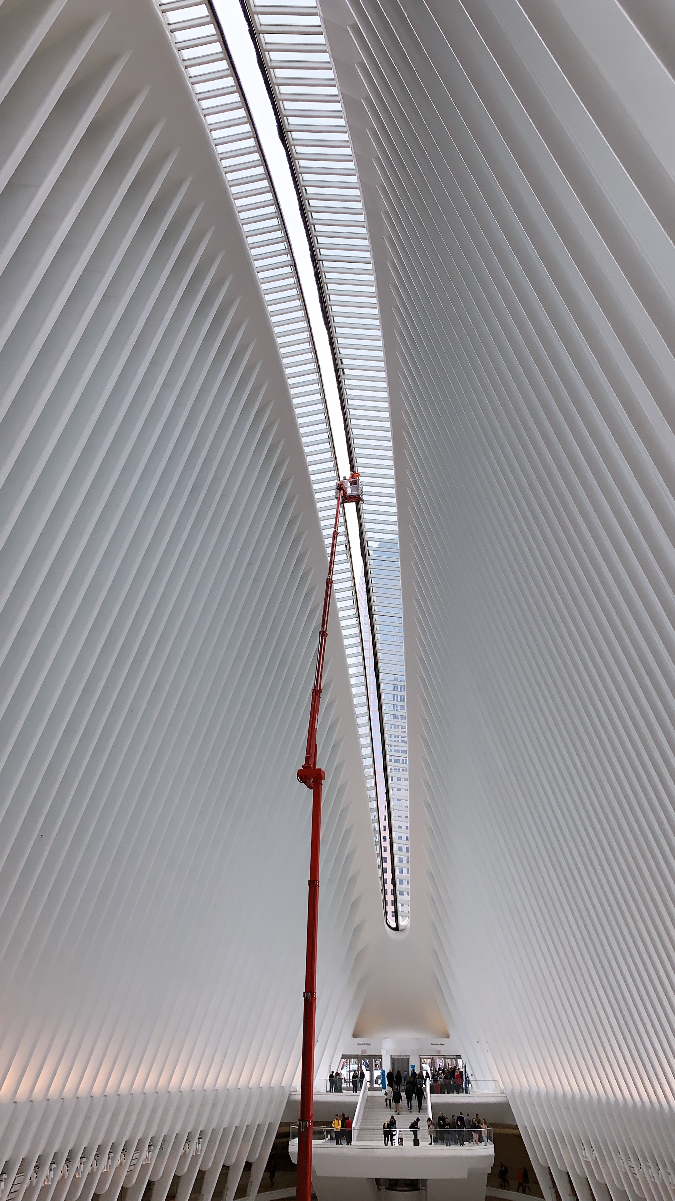 Workers open up the glass ceiling of the Oculus building to make necessary repairs.